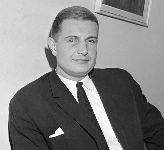 Erik Tandberg, Norwegian civil engineer and space expert